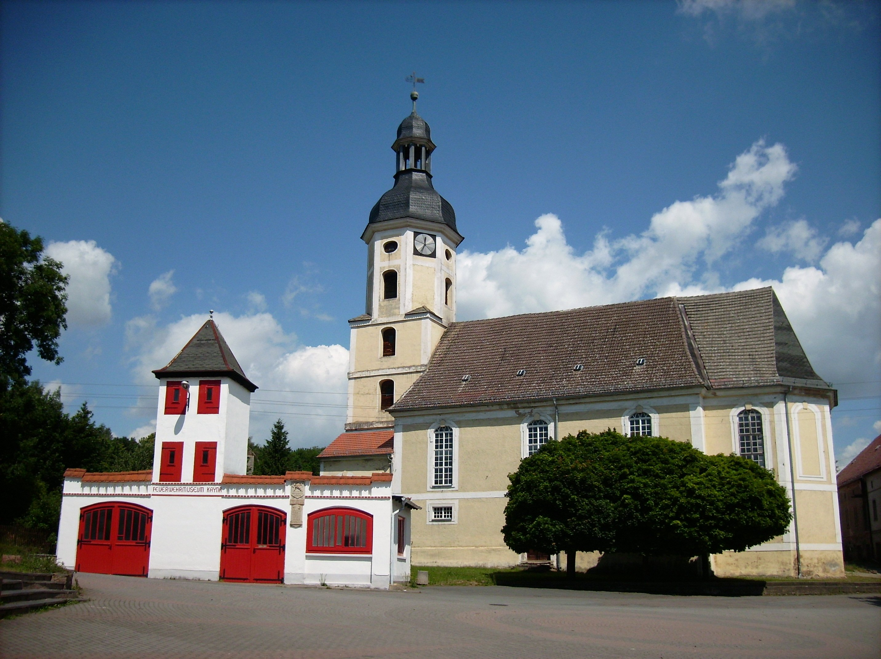 Church and Firefighters Museum, Kayna (Zeitz, district of Burgenlandkreis, Saxony-Anhalt)